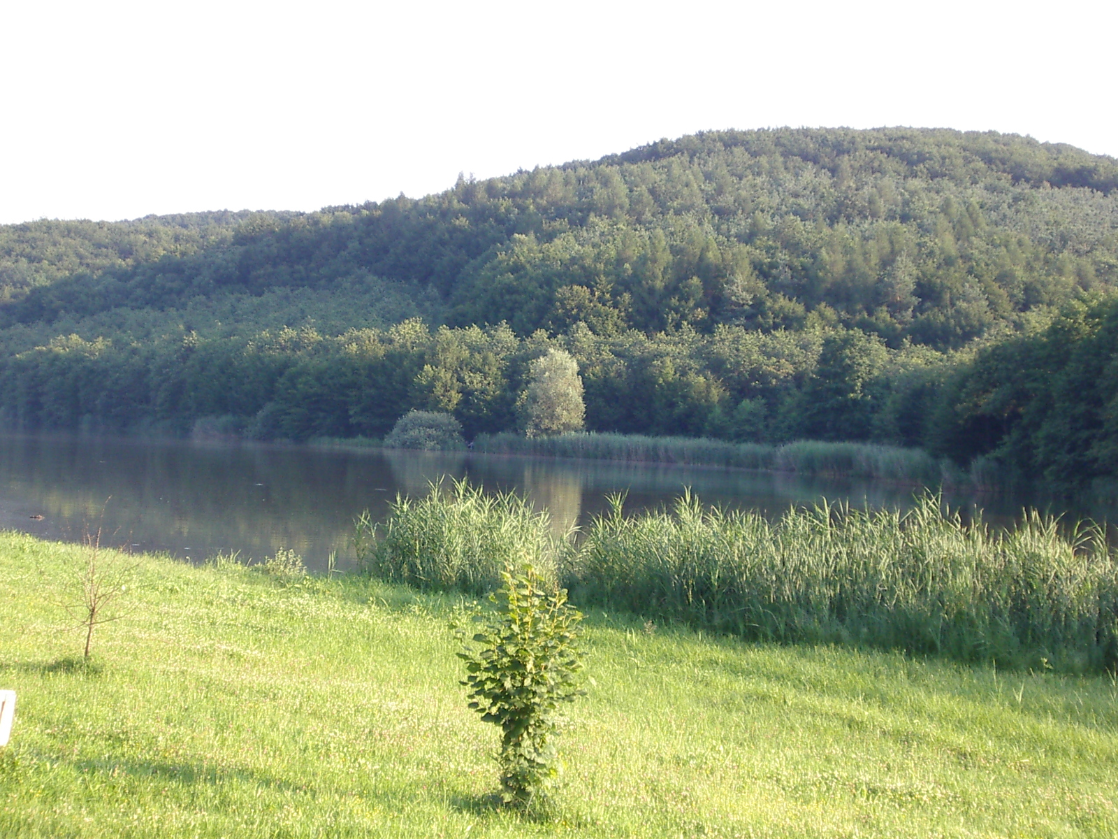 lake in Kistolmacs in Hungary in Zala county